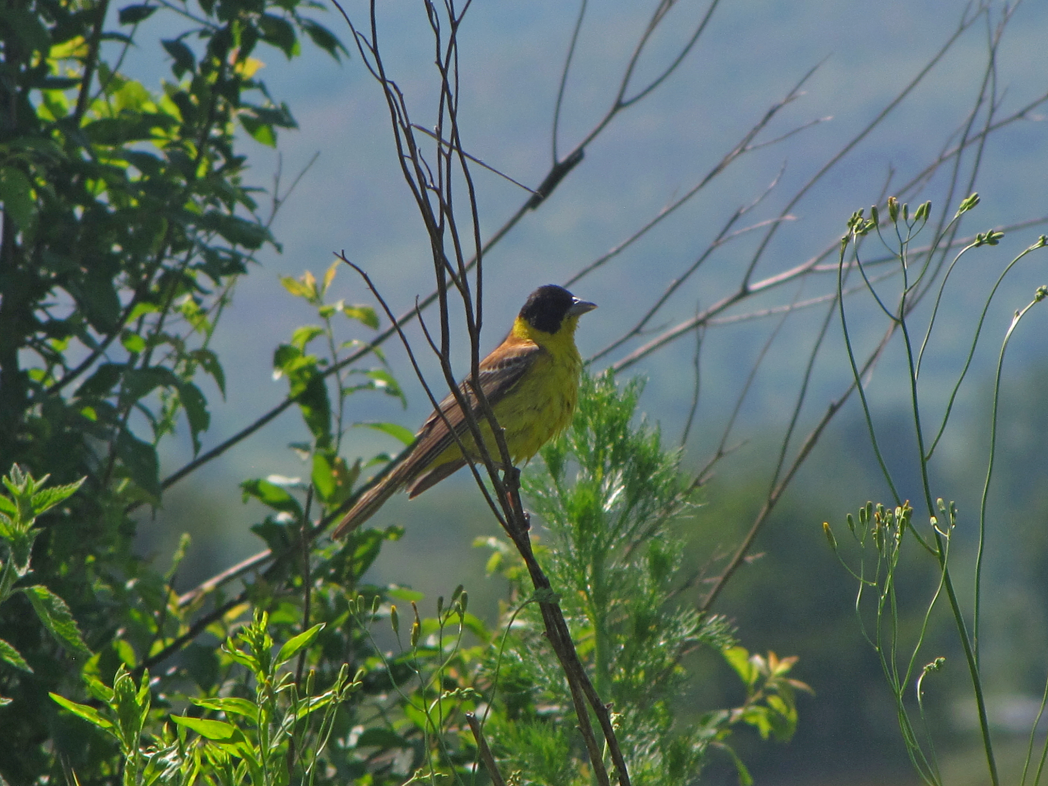 Black-headed Bunting Emberiza melanocephala, Veliko selo, Serbia; rare species in Serbia